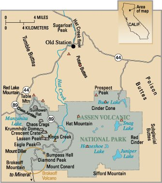 Map — Eruptions in the Lassen area in the last 50,000 years.